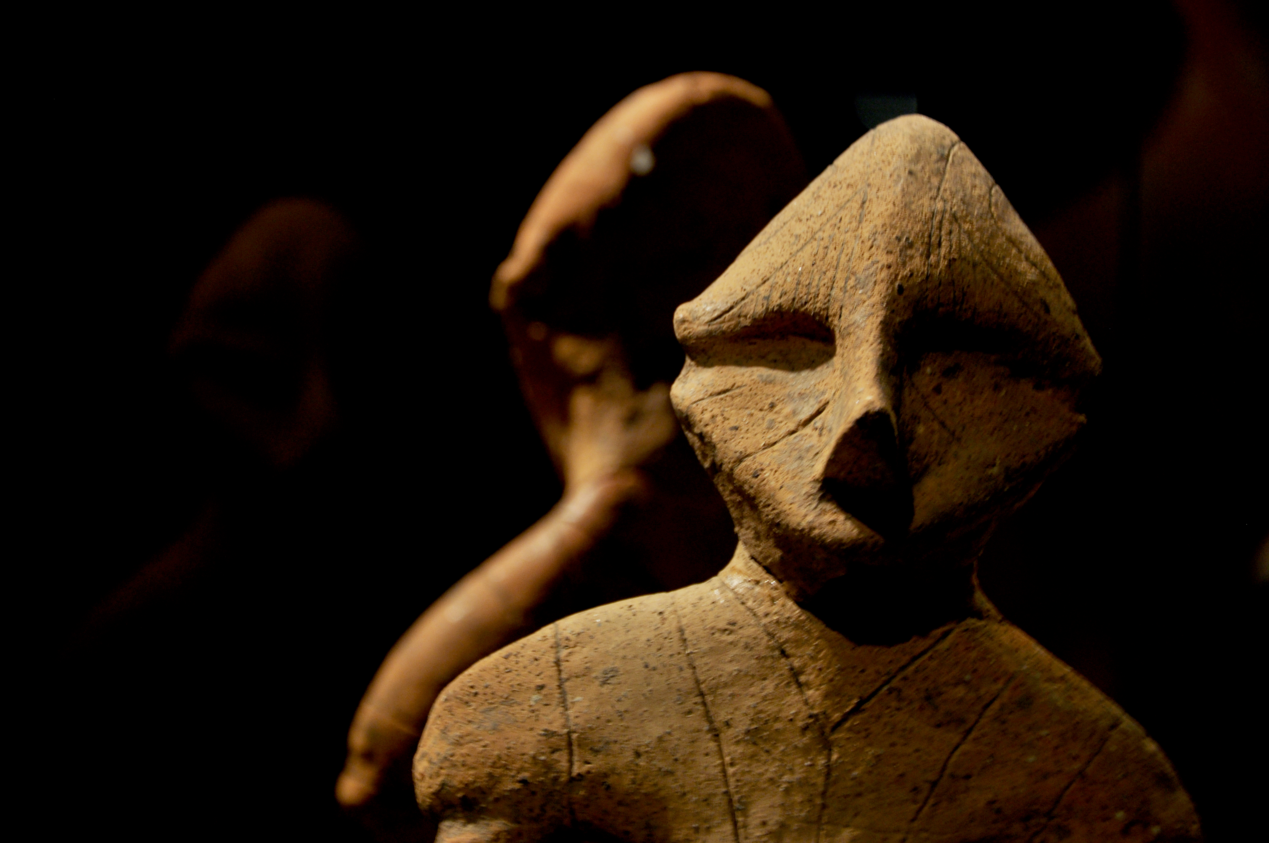 hyjnesha